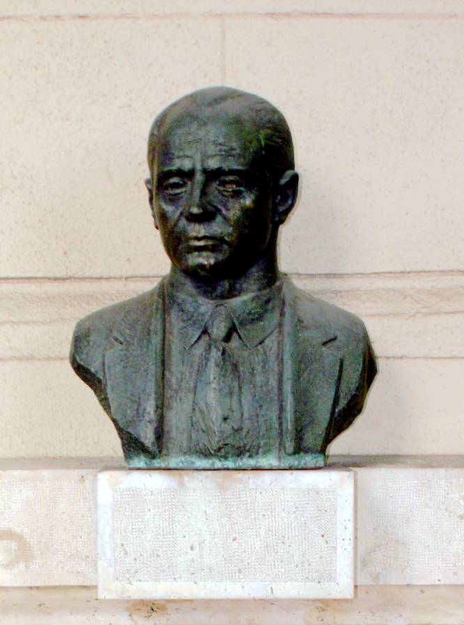 Bust of Fasching Antal; sculptor: Nándor Kóthay